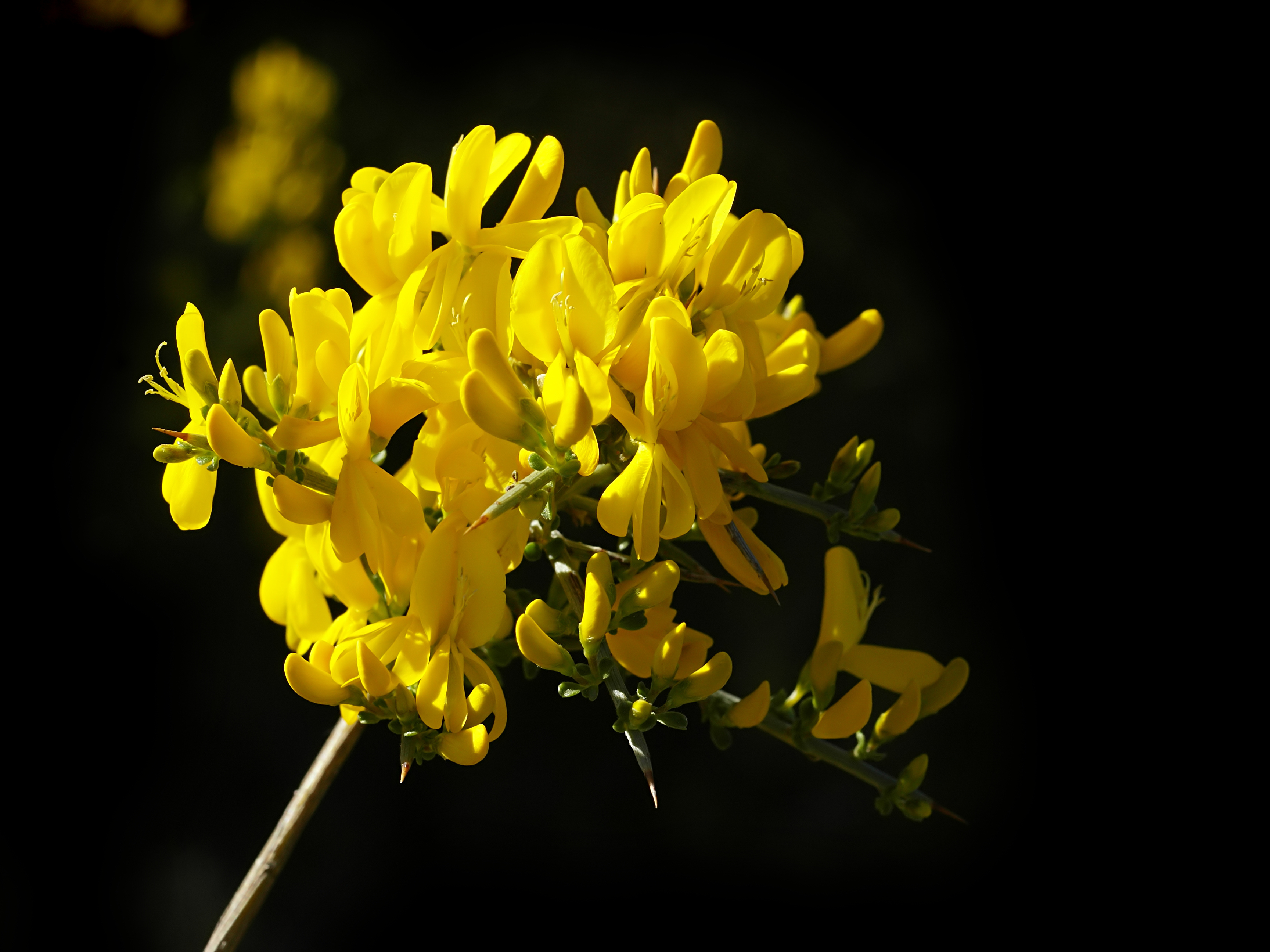 Close to Bot, Catalonia, Spain